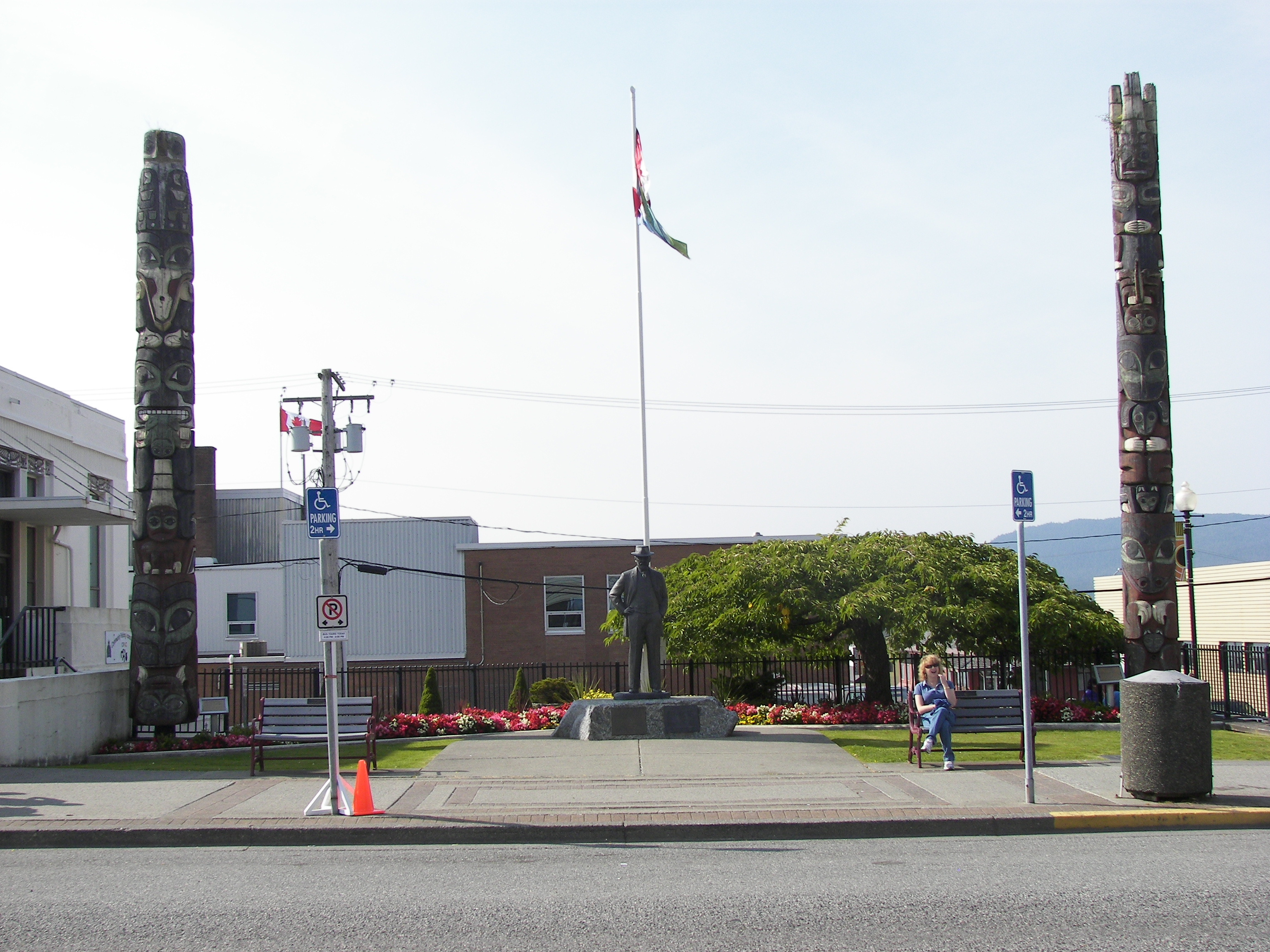 Statue of Charles Melville Hays by Elek Imredy and totem poles outside City Hall of Prince Rupert, British Columbia.